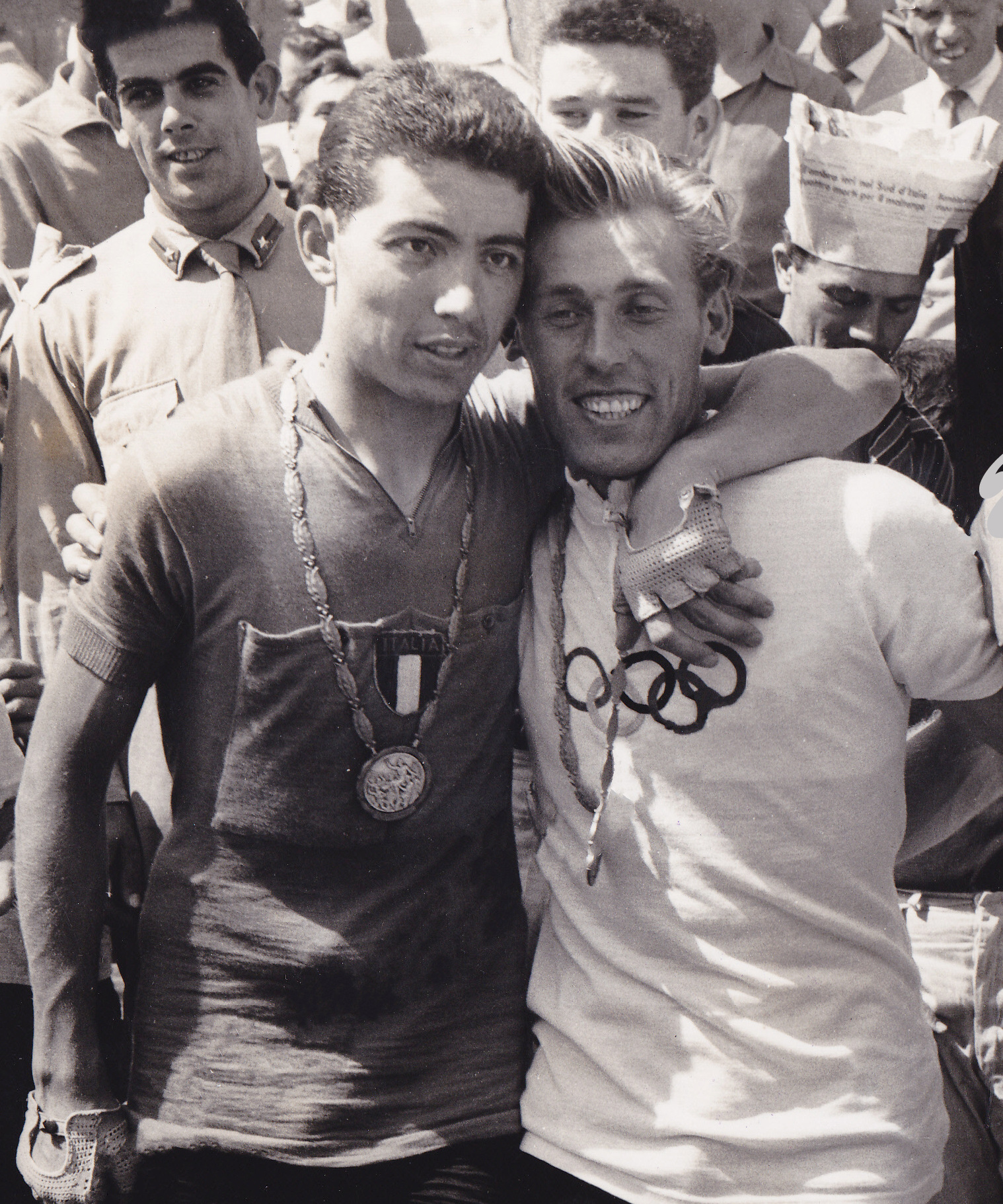 Livio Trapè (left) and Viktor Kapitonov at the 1960 Olympics in Rome